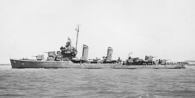 The U.S. Navy destroyer USS Bailey (DD-492) after modifications, Mare Island, 4 July 1943.